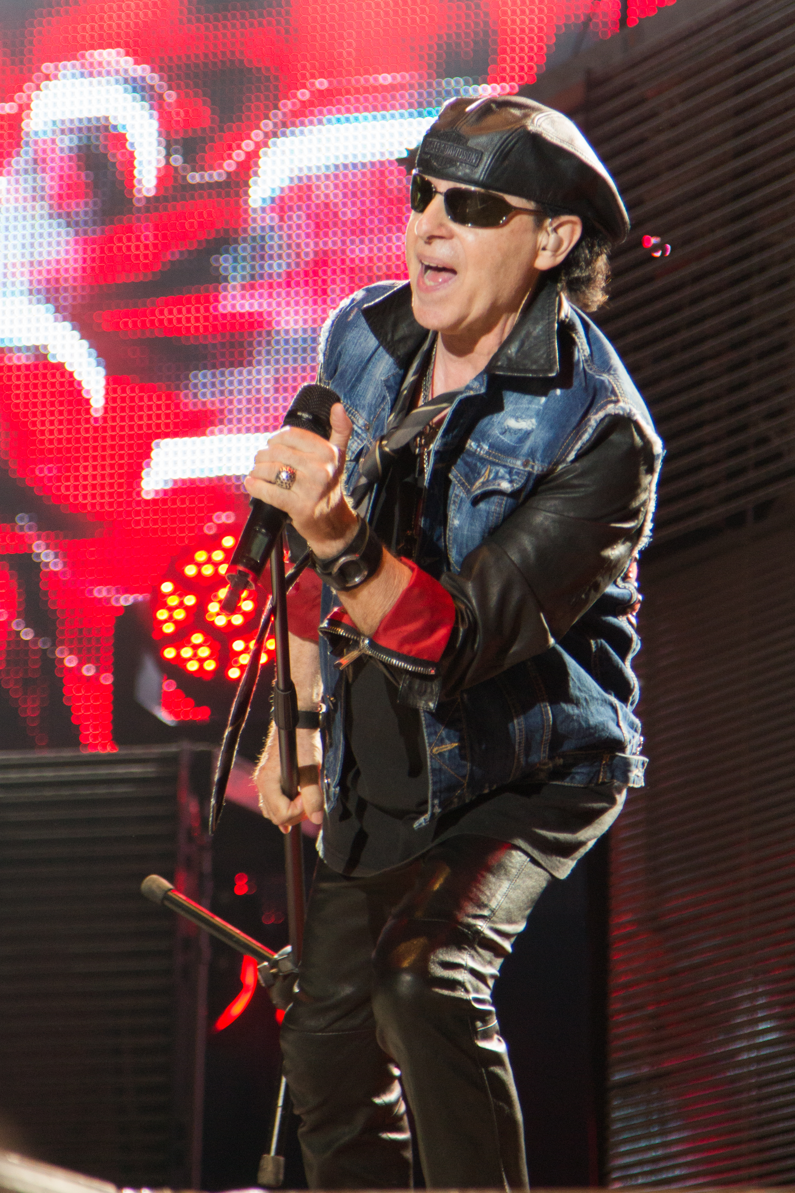 Klaus Meine from the Scorpions at the See-Rock Festival 2014